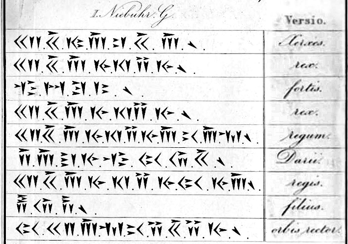 Grotefend translation of the Xerxes inscription (Old Persian version)